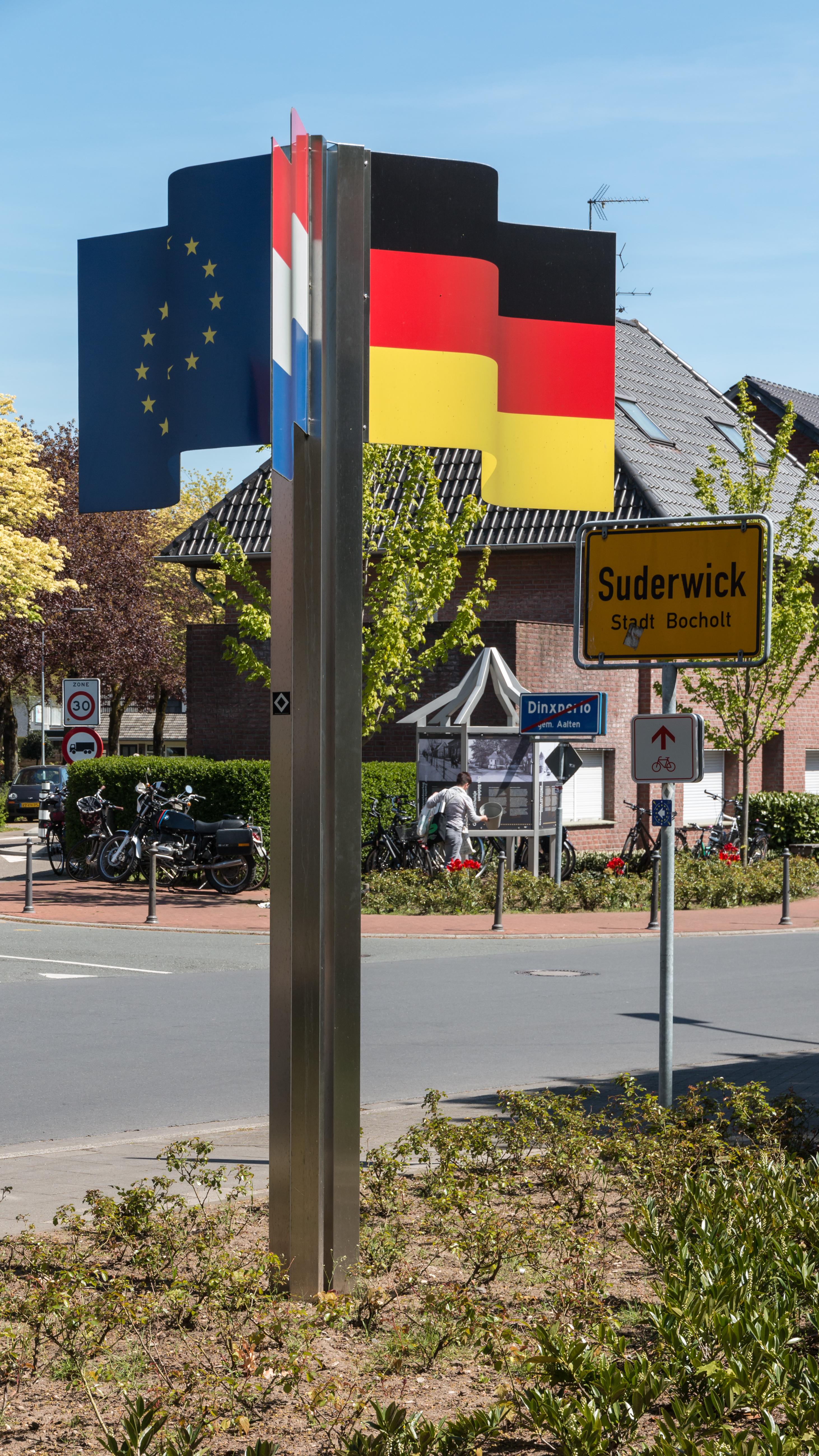 Flag sculpture at the exit of Dinxperlo, Gelderland, Netherlands, before entering Suderwick, Bocholt, North Rhine-Westphalia, Germany Sculpture TitleFlaggenskulpturArtistUnknown artistDateUnknown dateUnknown date